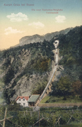 General view of the Guncina funicular in Bolzano, Italy